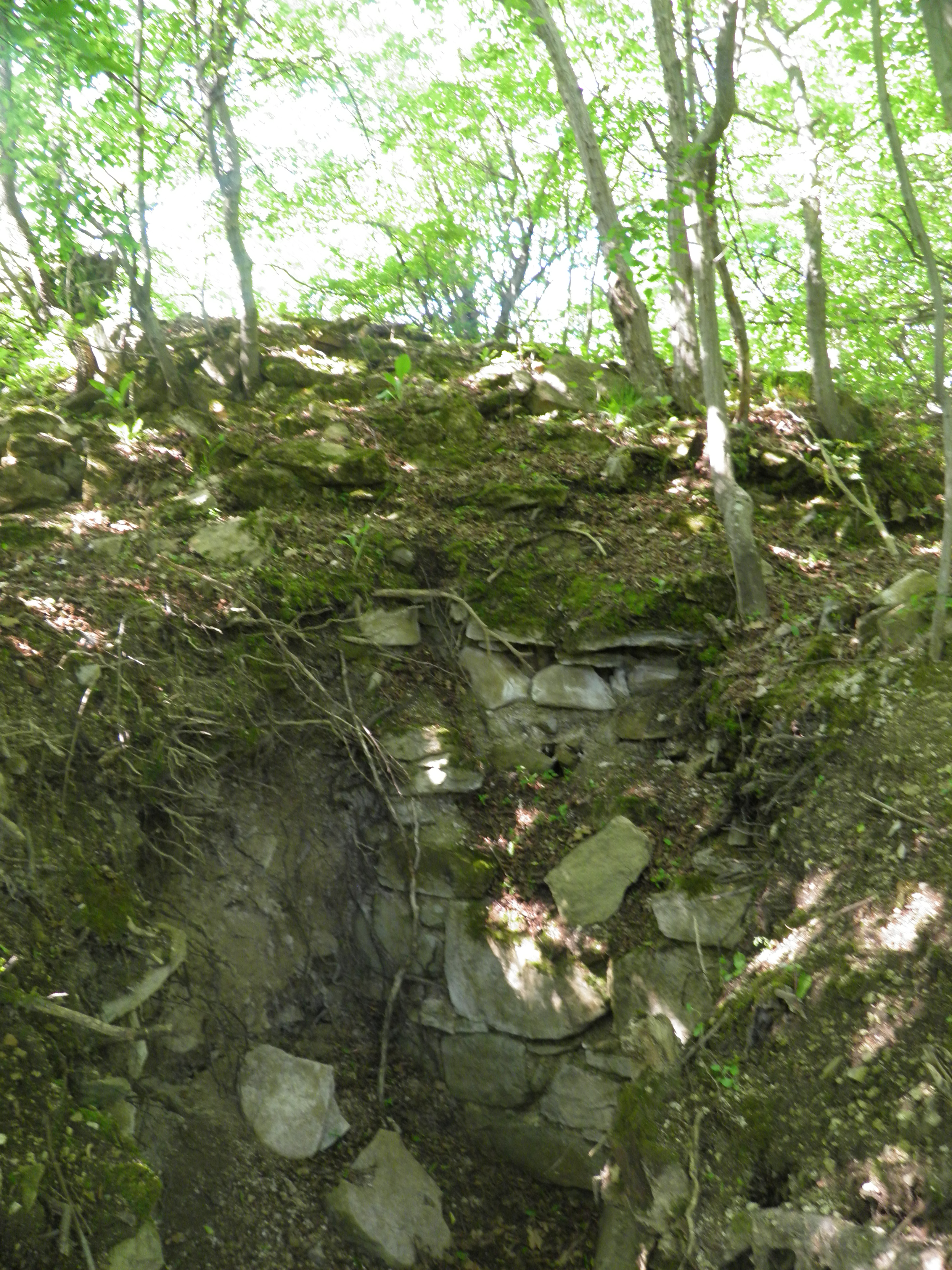 Ruins of Devingrad,Veliko Tarnovo,Bulgaria